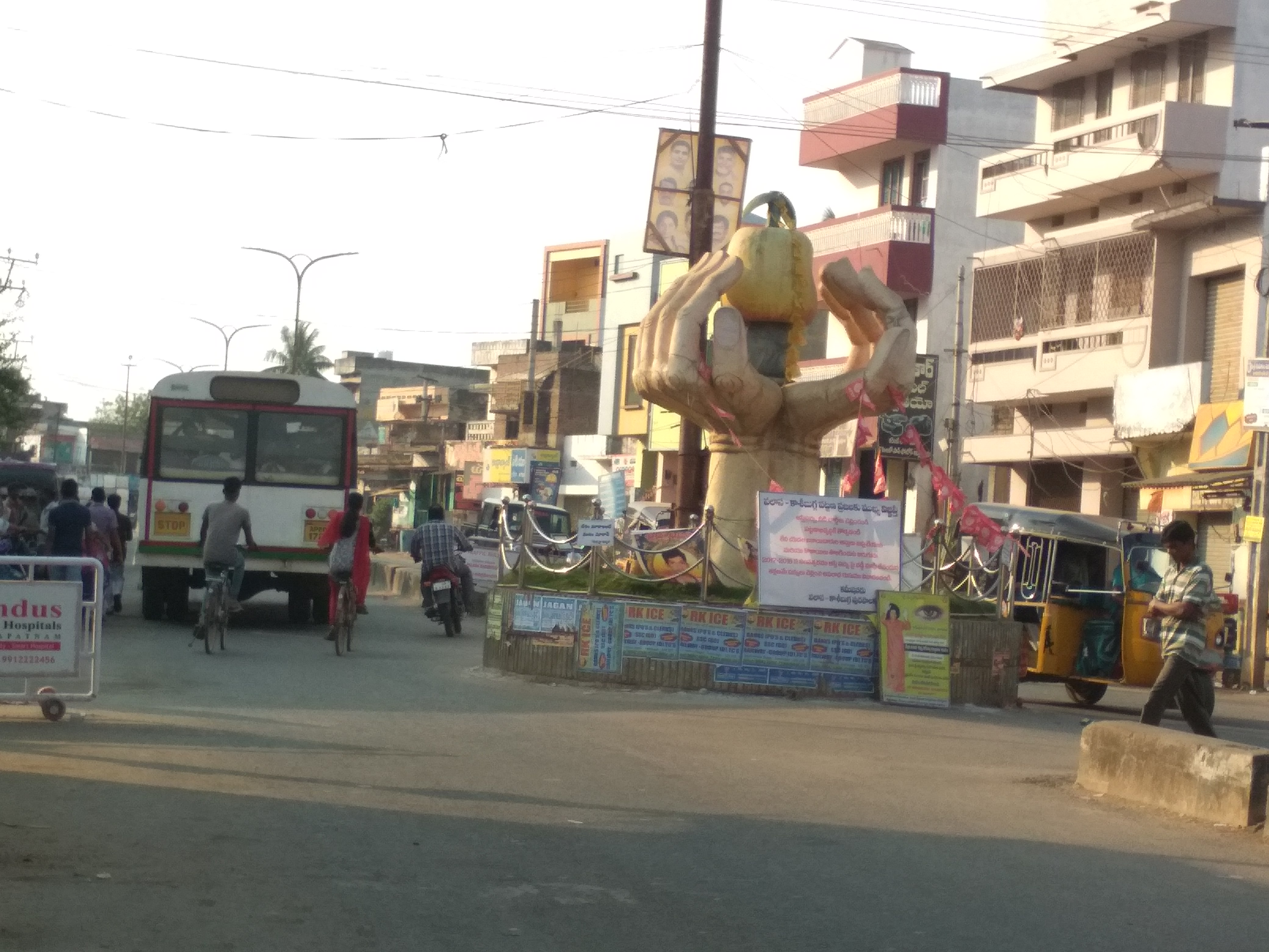 Palasa centre